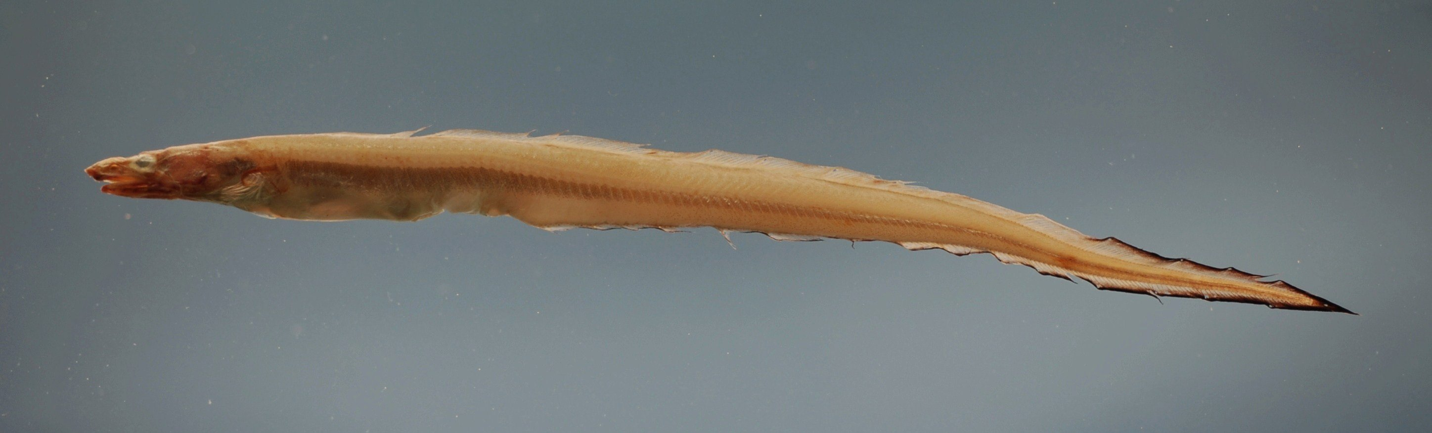 Crop of file in filename